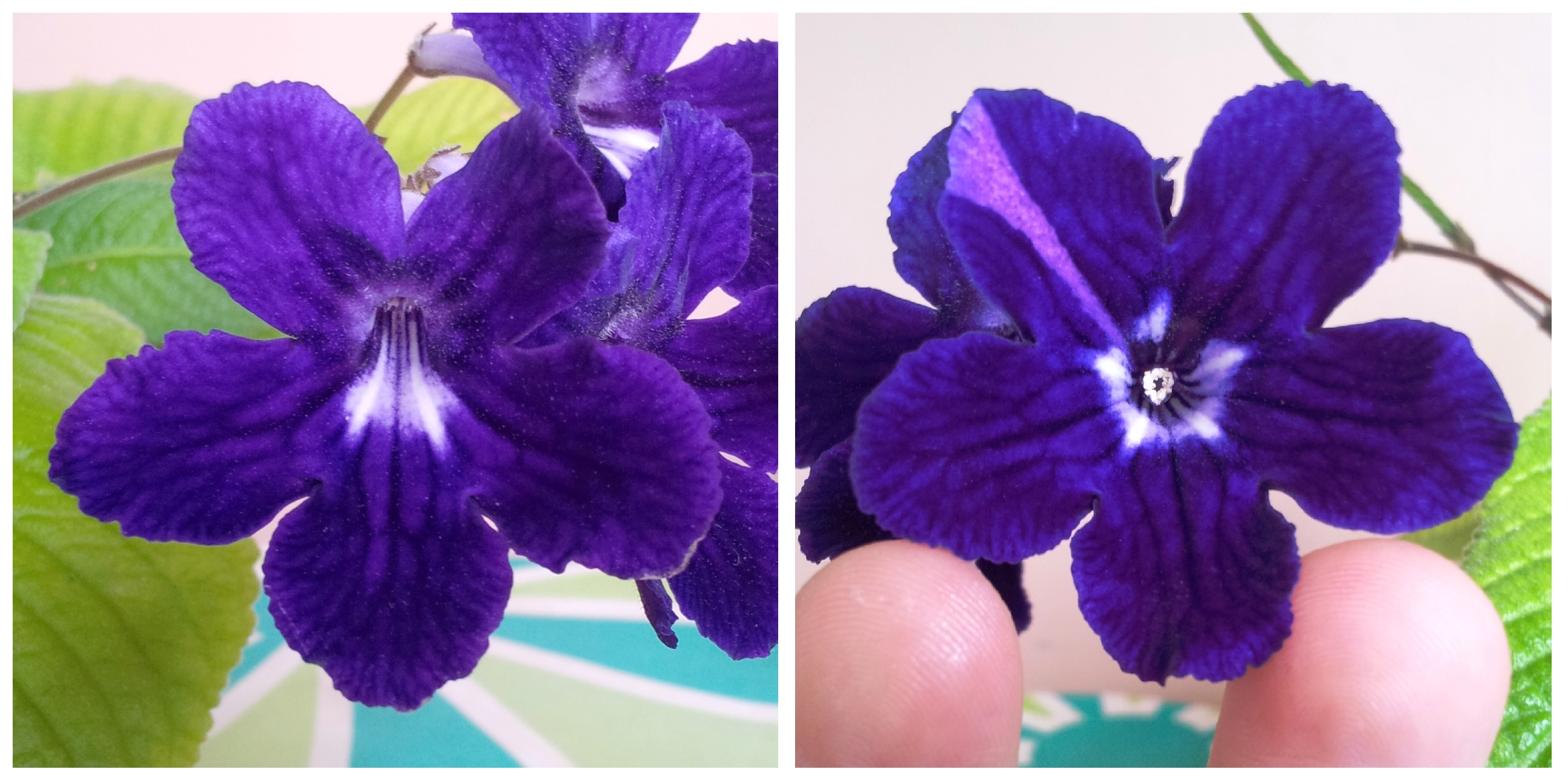 Left: A normal zygomorphic Streptocarpus flower. Right: An aberrant peloric Streptocarpus flower. Both of these flowers appeared on the Streptocarpus hybrid 'Anderson's Crows' Wings'.